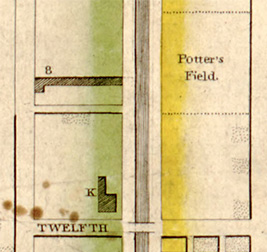 The current location of Music Hall was the location of a Potter's Field in 1841.